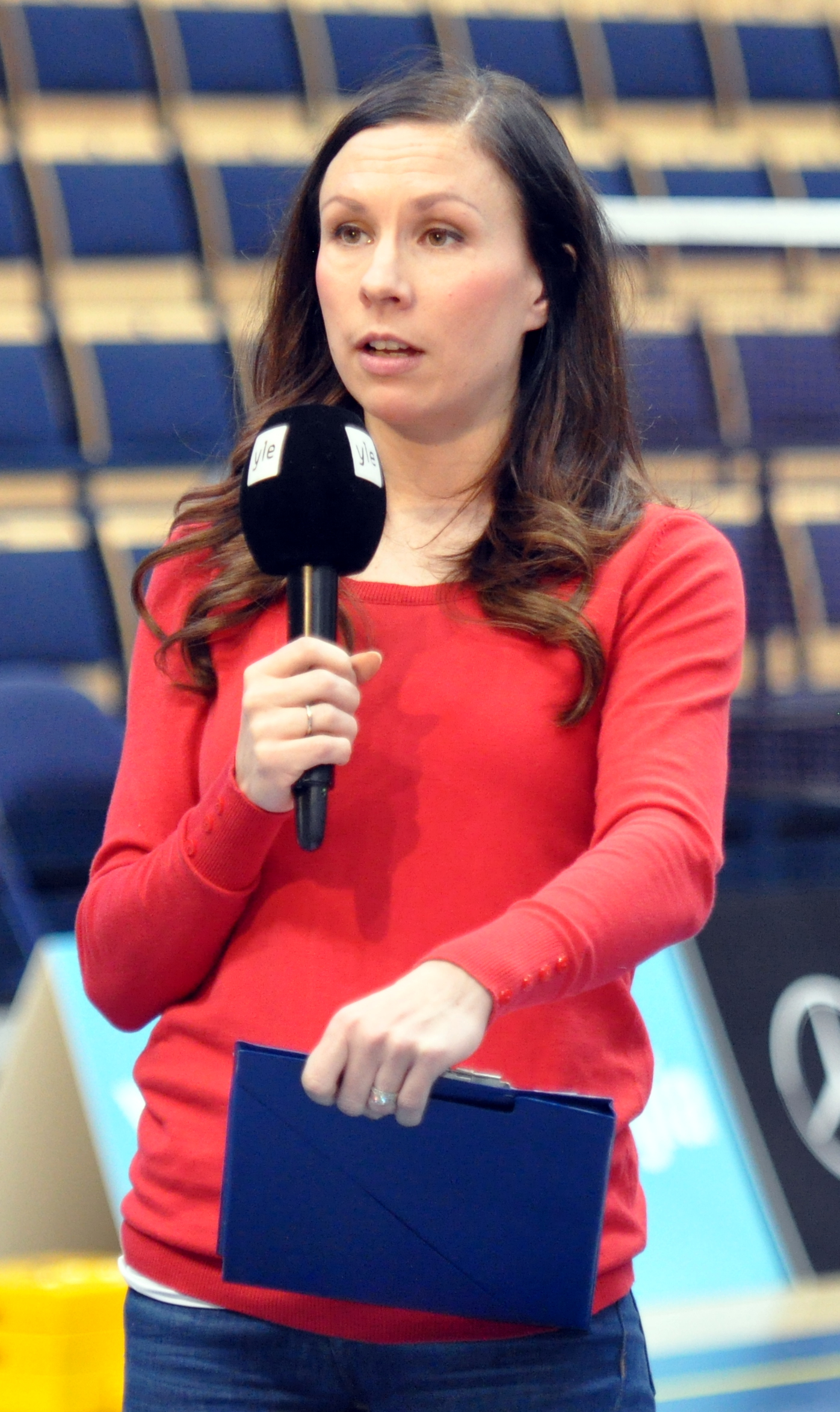 Petra Manner is a Finnish journalist.